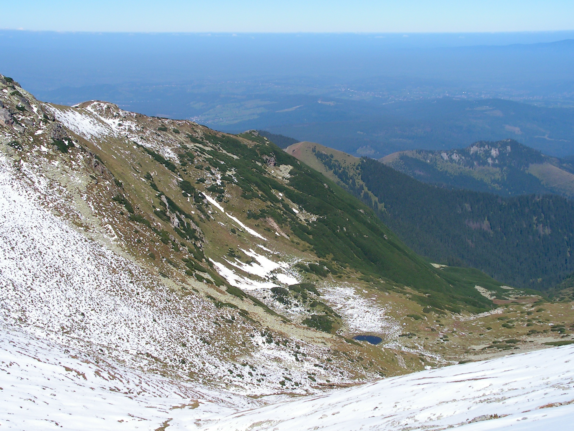 Široká dolina with the lake Tiché pleso.